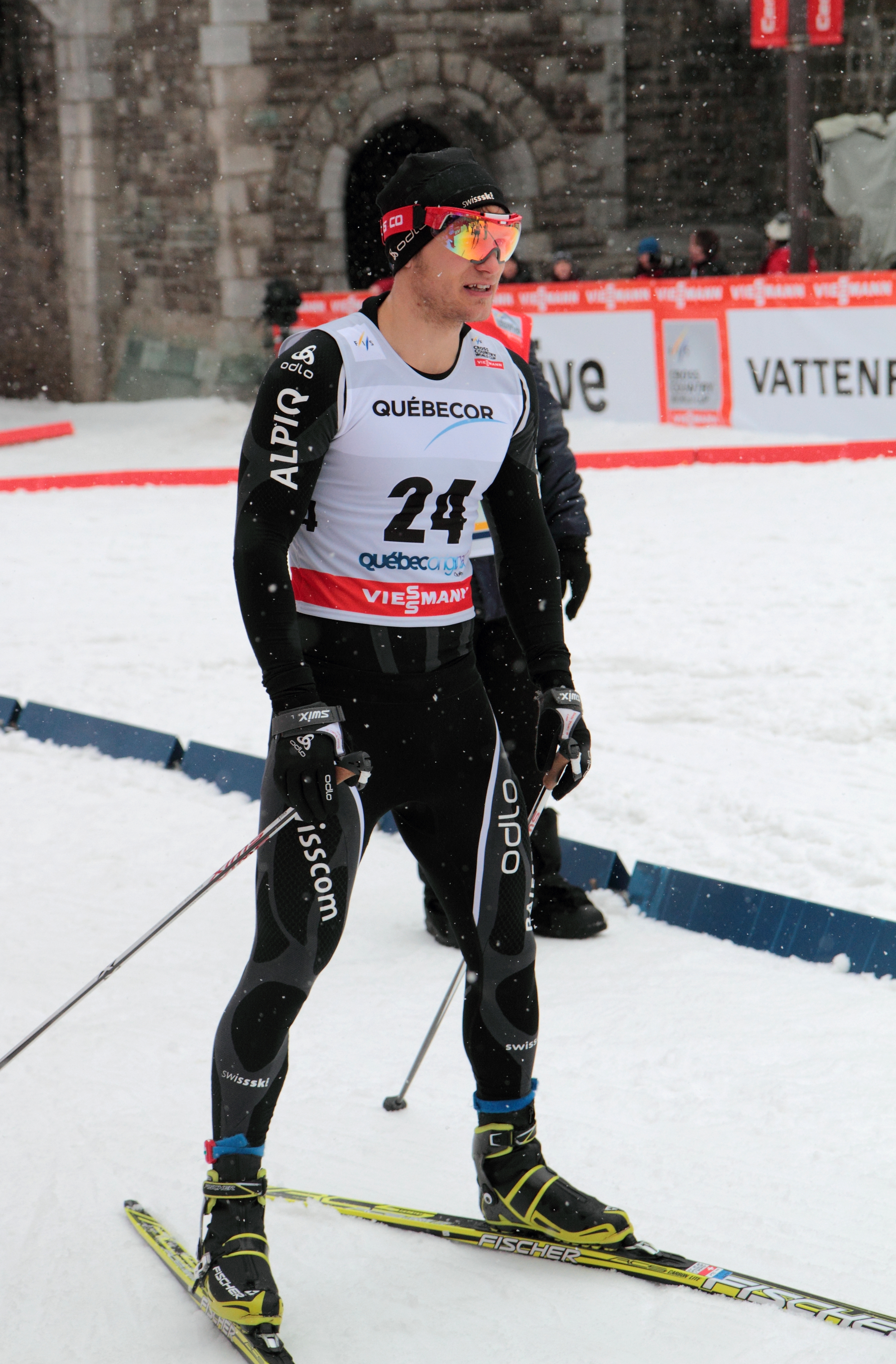 Joeri Kindschi, FIS Cross-Country World Cup 2012, Quebec, Canada.